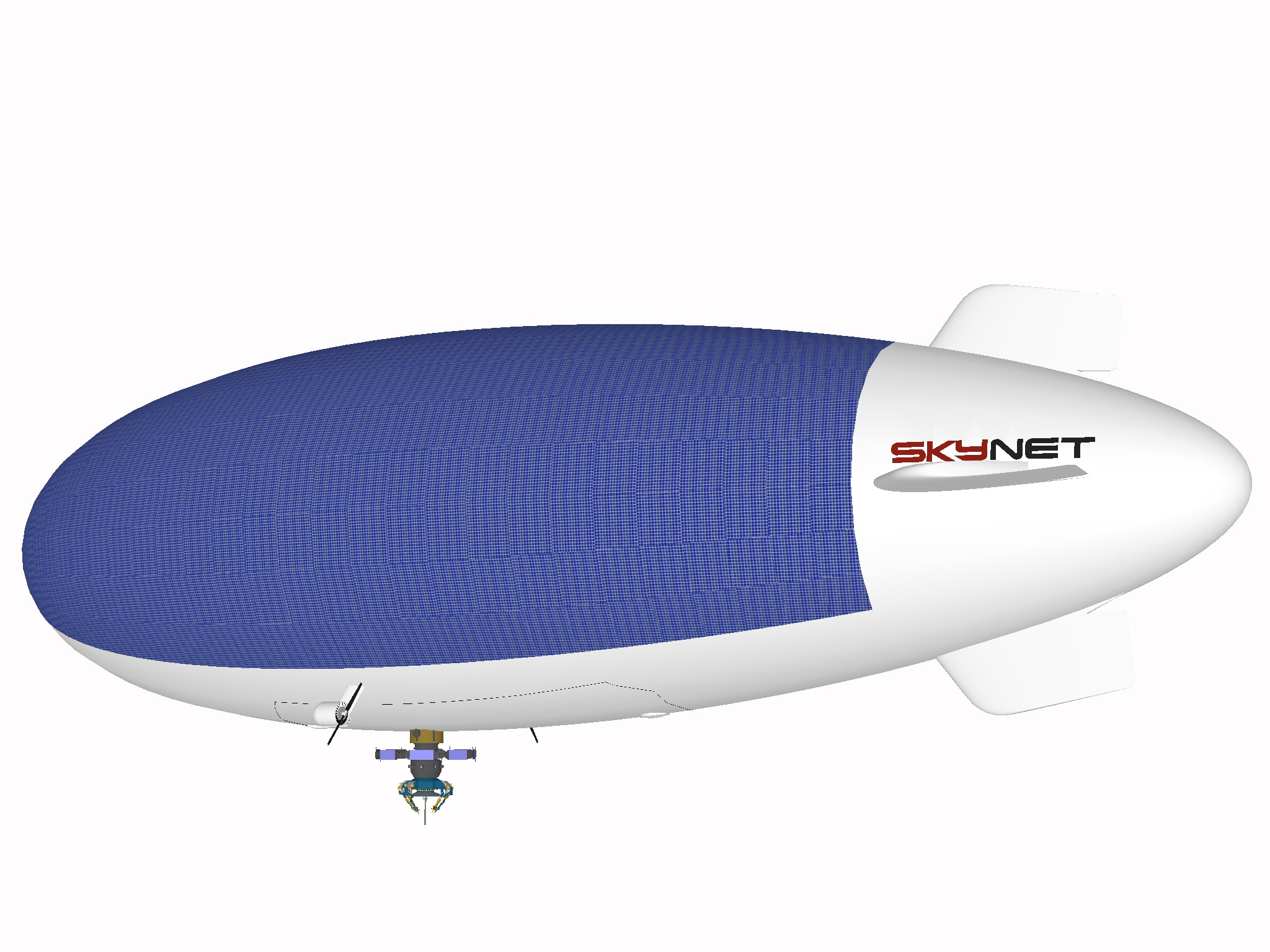 The Geostationary Airship Satellite floats at about 65,000 feet and receives data from parabolic antenna base station. It rains down cellular data and and can capture aerial video and imagery. I hereby affirm that I, (kcida10) the creator of ( Geostationary airship satellite ) is my work. I agree to publish that work under the free license I acknowledge that by doing so I grant anyone the right to use the work in a commercial product or otherwise, and to modify it according to their needs, I am aware that this agreement is not limited to Wikipedia or related sites. Modifications others make to the work will not be claimed to have been made by me. I acknowledge that I cannot withdraw this agreement, and that the content may or may not be kept permanently on a Wikimedia project. Kcida10 La Crosse, WI 54603. I am the designer and creator of the 3D model ( geostationary airship satellite ) on Sketchup Make's open source repository. 1Dec15